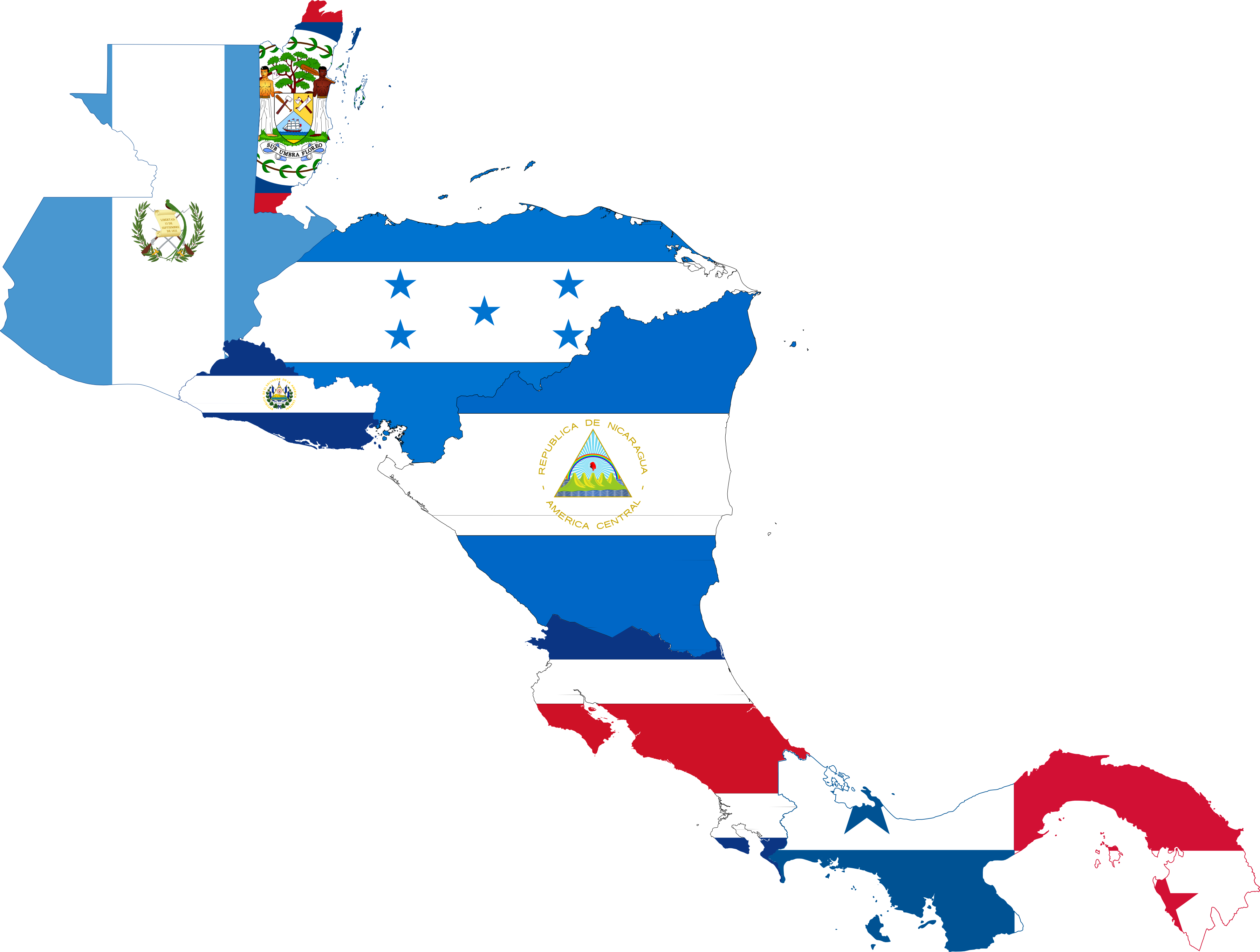 Central American Flags (Guatemala, Belize, Honduras, El Salvador, Nicaragua, Costa Rica, Panama)